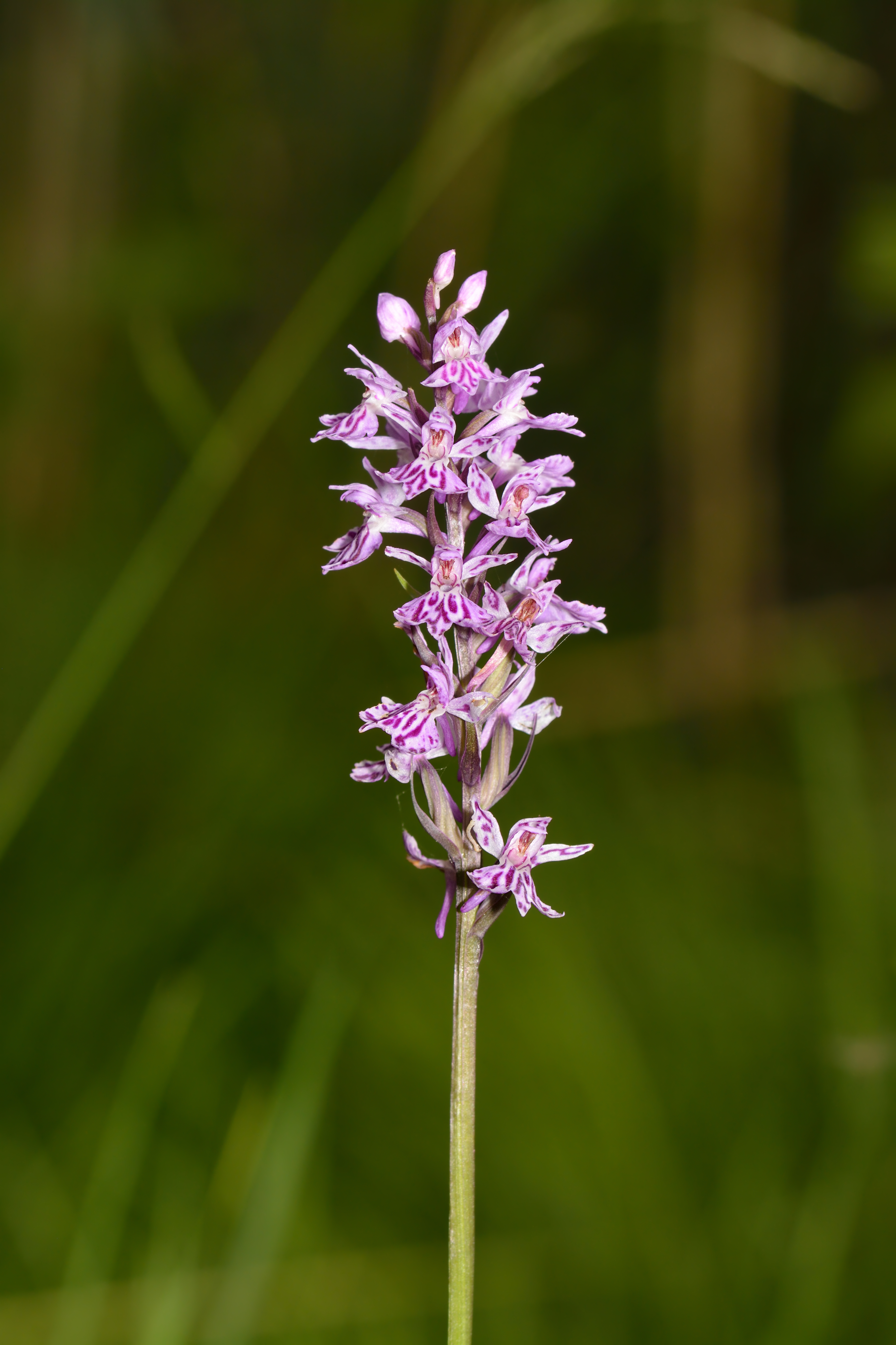 Common Spotted-orchid (Dactylorhiza fuchsii). Suurupi nature reserve, Northwestern Estonia.